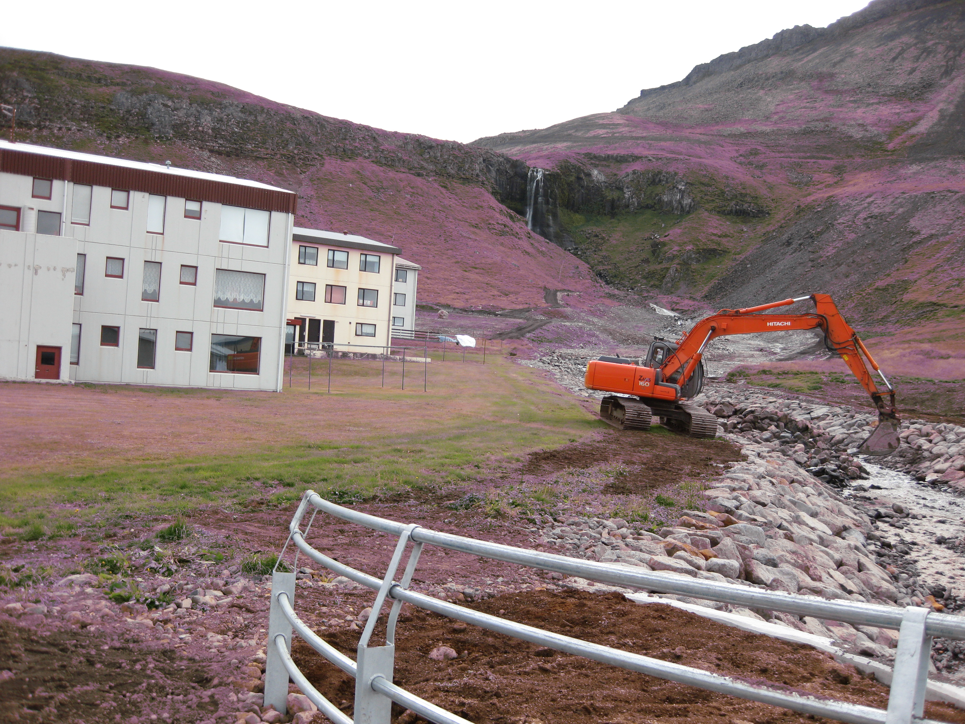 from the fishing town Ólafsvík in Snæfellsnes , Iceland. Photo by Salvor Gissurardottir in August 2008